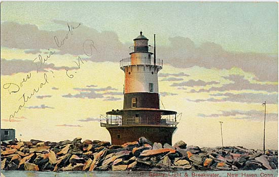 Postcard: Sperry Breakwater Lighthouse 1901-1907 era postcard "Postcard featuring the Sperry Breakwater lighthouse, Connecticut Postcard era: Undivided Back Era, 1901 -1907" On the back of the postcard there is no stamp or postmark "Status: discontinued and demolished in 1933; replaced by skeleton tower" Quotation from